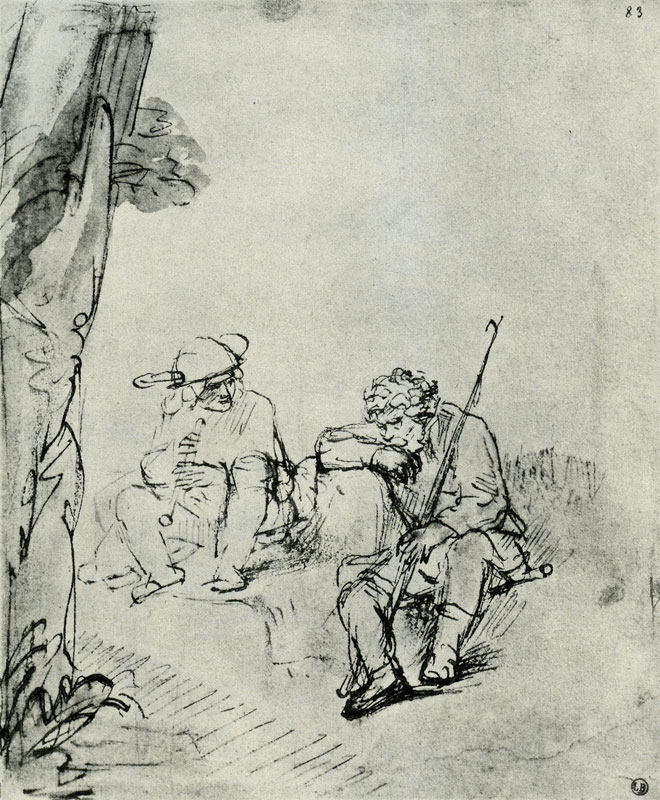 Rembrandt Mercury and Argos c. 1651-52 178 x 146 mm Pen and some brush in bistre, corrected with white body-colour Louvre, Paris